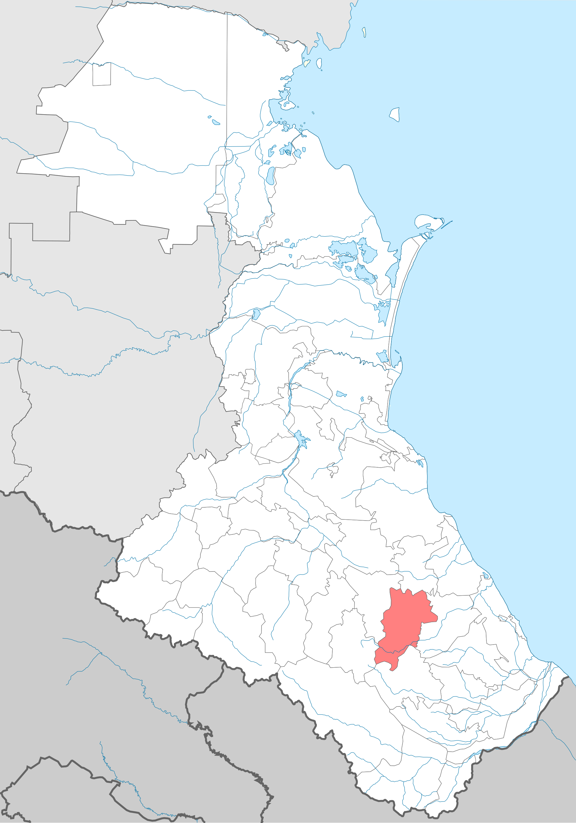 Dakhadayevsky district. Locator Map of Dagestan (Russia)